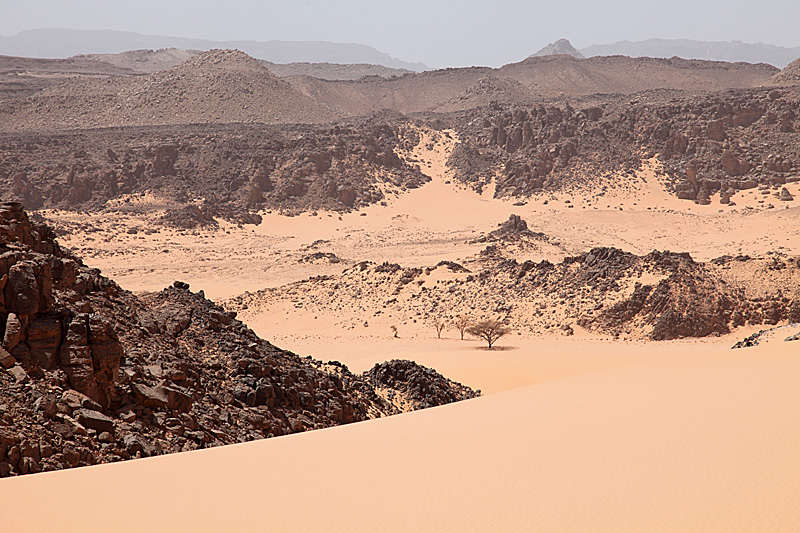 Gebel Uweinat, Western Desert, Egypt & Sudan